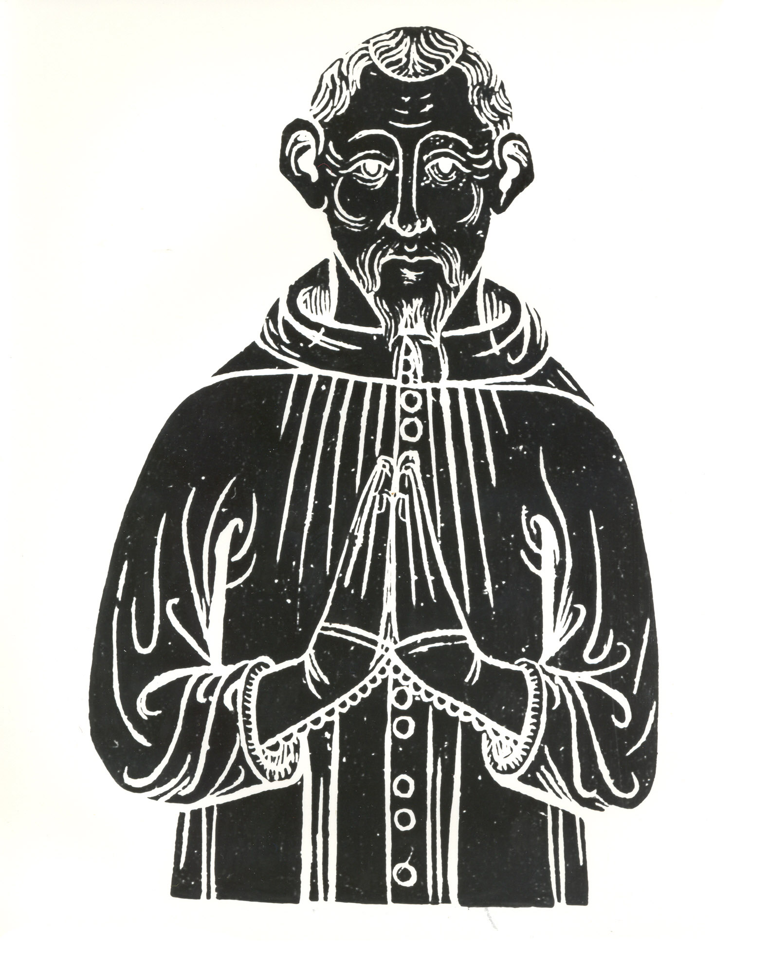 Image of Robert de Brantingham, "rubbing" of a brass effigy (d. c. 1400) in St Mary's Church, East Horsley, Surrey.